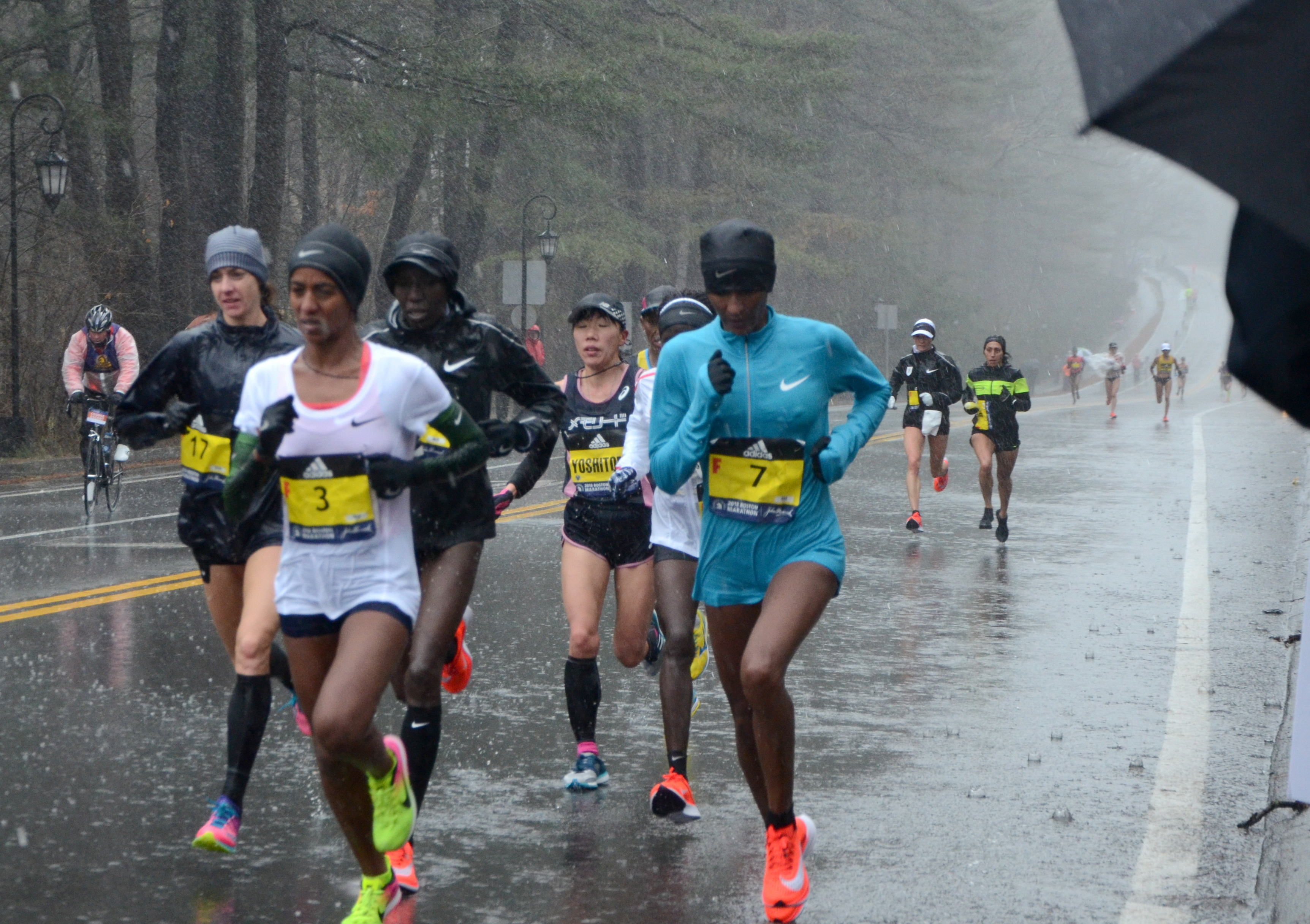 Lead women ear halfway point of Boston Marathon 2018 during an especially hard down pour. In the lead is Buzunesh Deba, bib #3, Mamitu Daska, # 7 and Molly Huddle, #17. The woman's winner, Desiree Linden, wearing black with a large green stripe, is on the right of the pair of runners behind the lead pack.